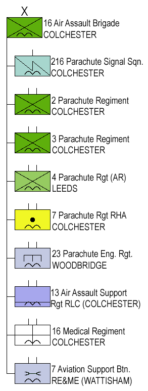 United Kingdom 16th Air Assault Brigade Structure